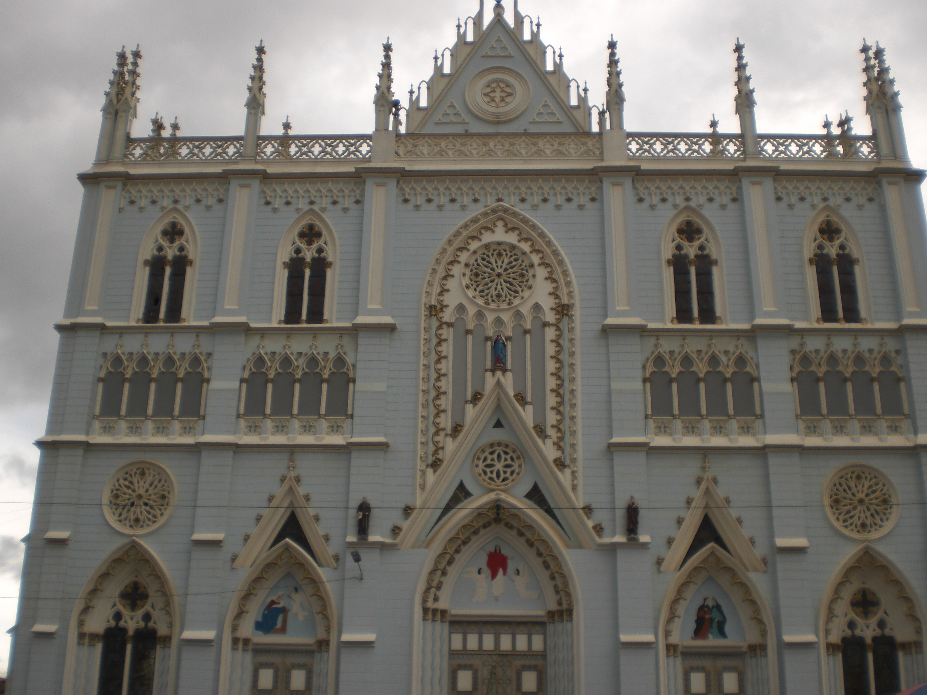 Basílica Del Cisne in El Cisne, Ecuador.